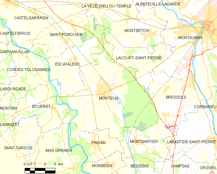 Map of French municipality Montech